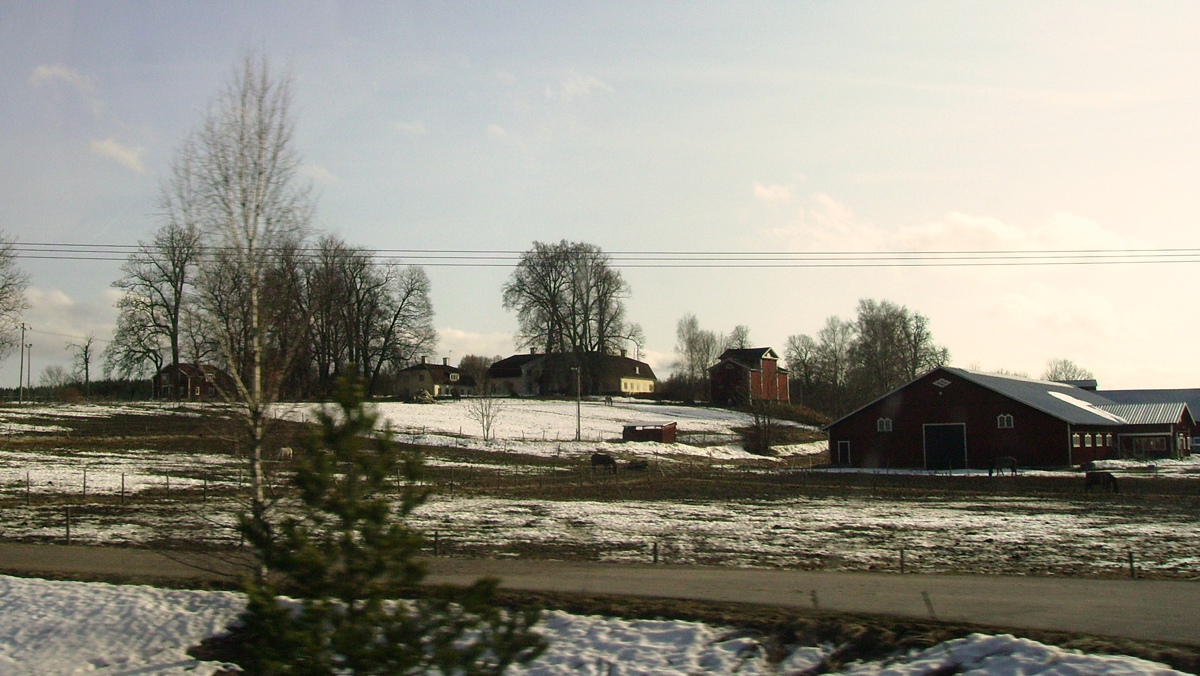 Picture of mansion Stjärnhovs säteri in Södermanland